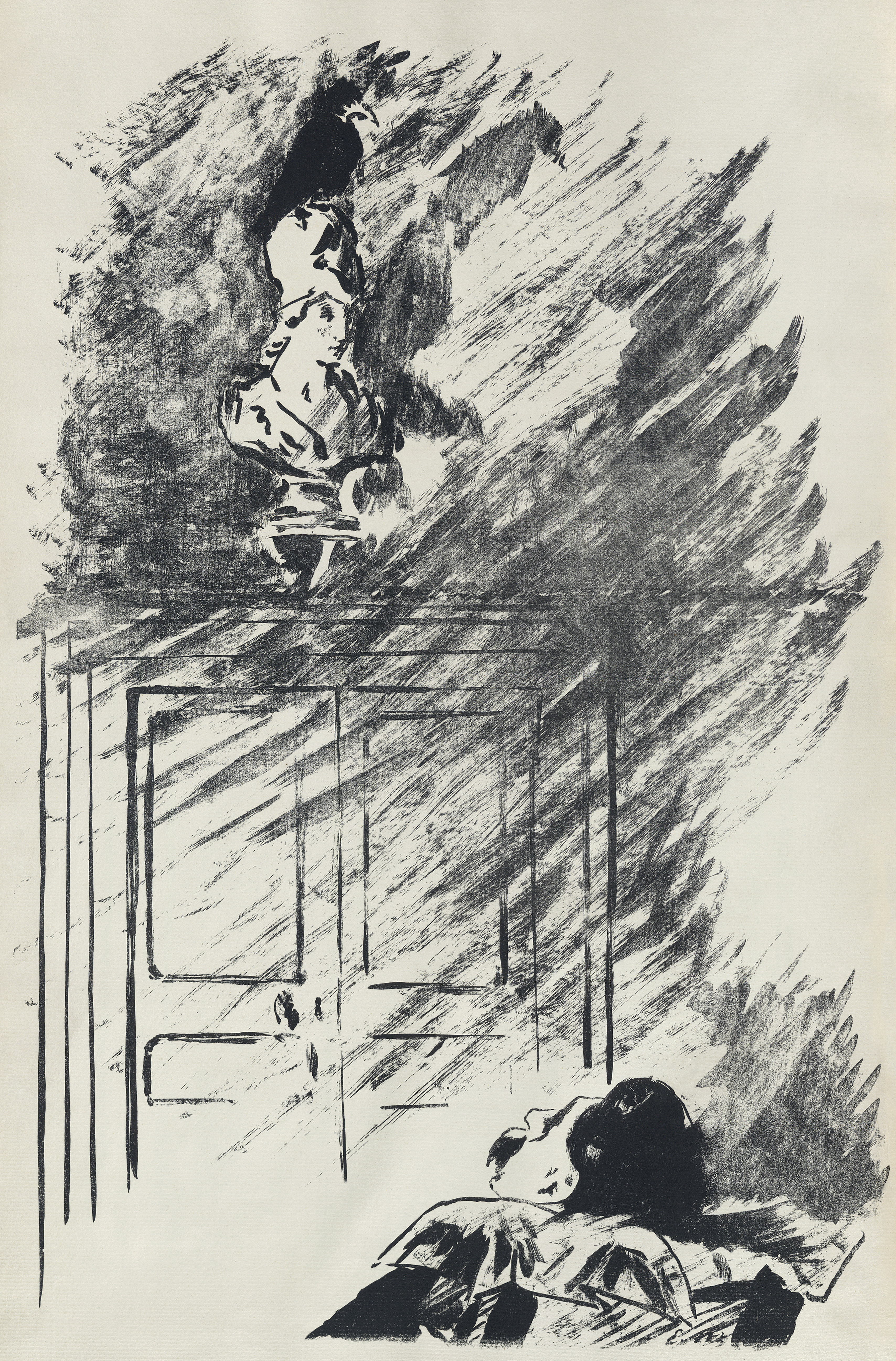 Illustration by Édouard Manet for a French translation by Stéphane Mallarmé of Edgar Allan Poe's "The Raven". Part 3 of 4 full page plates (two smaller illustrations at beginning and end omitted).